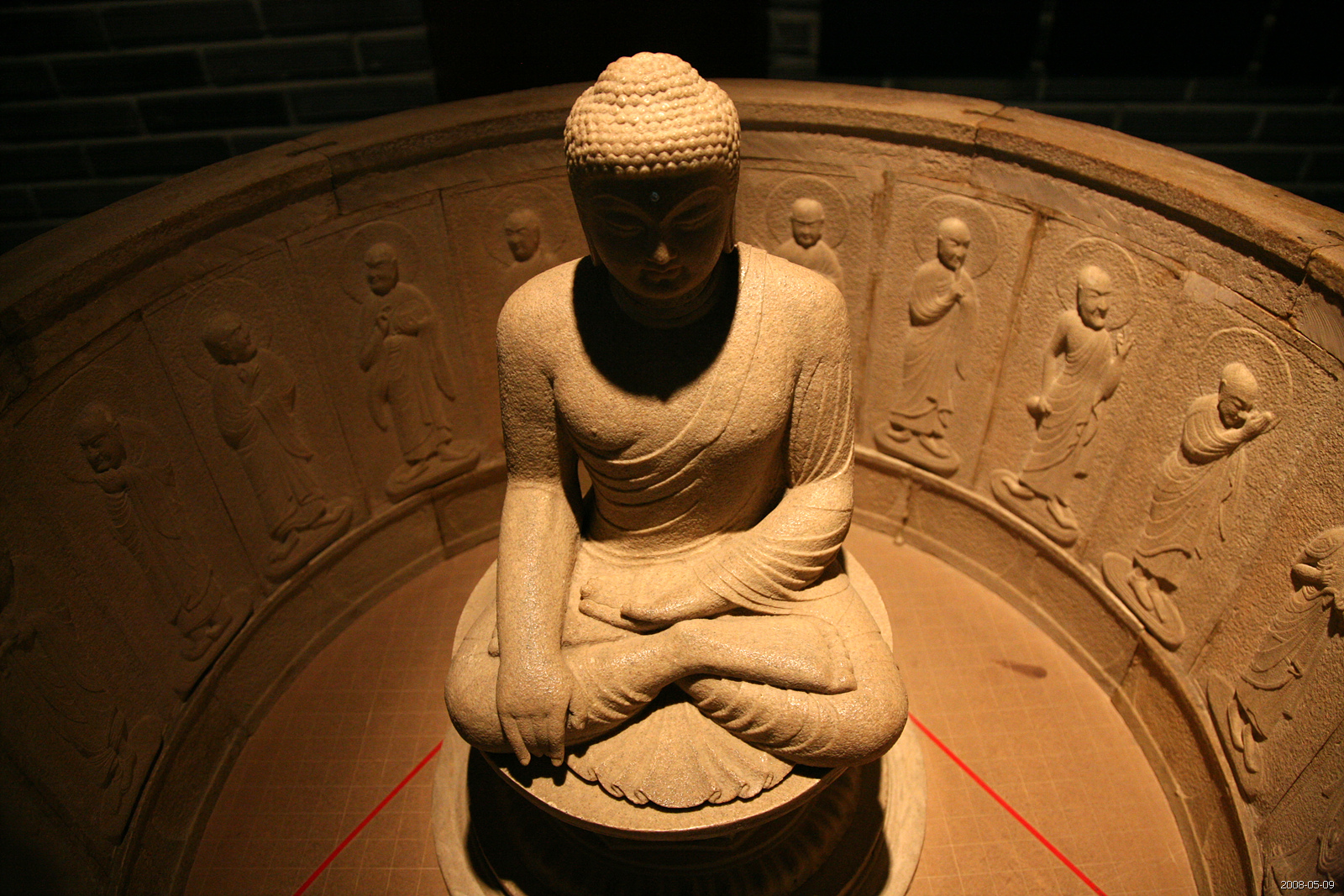 A view of Gyeongju, North Gyeongsang province, South Korea